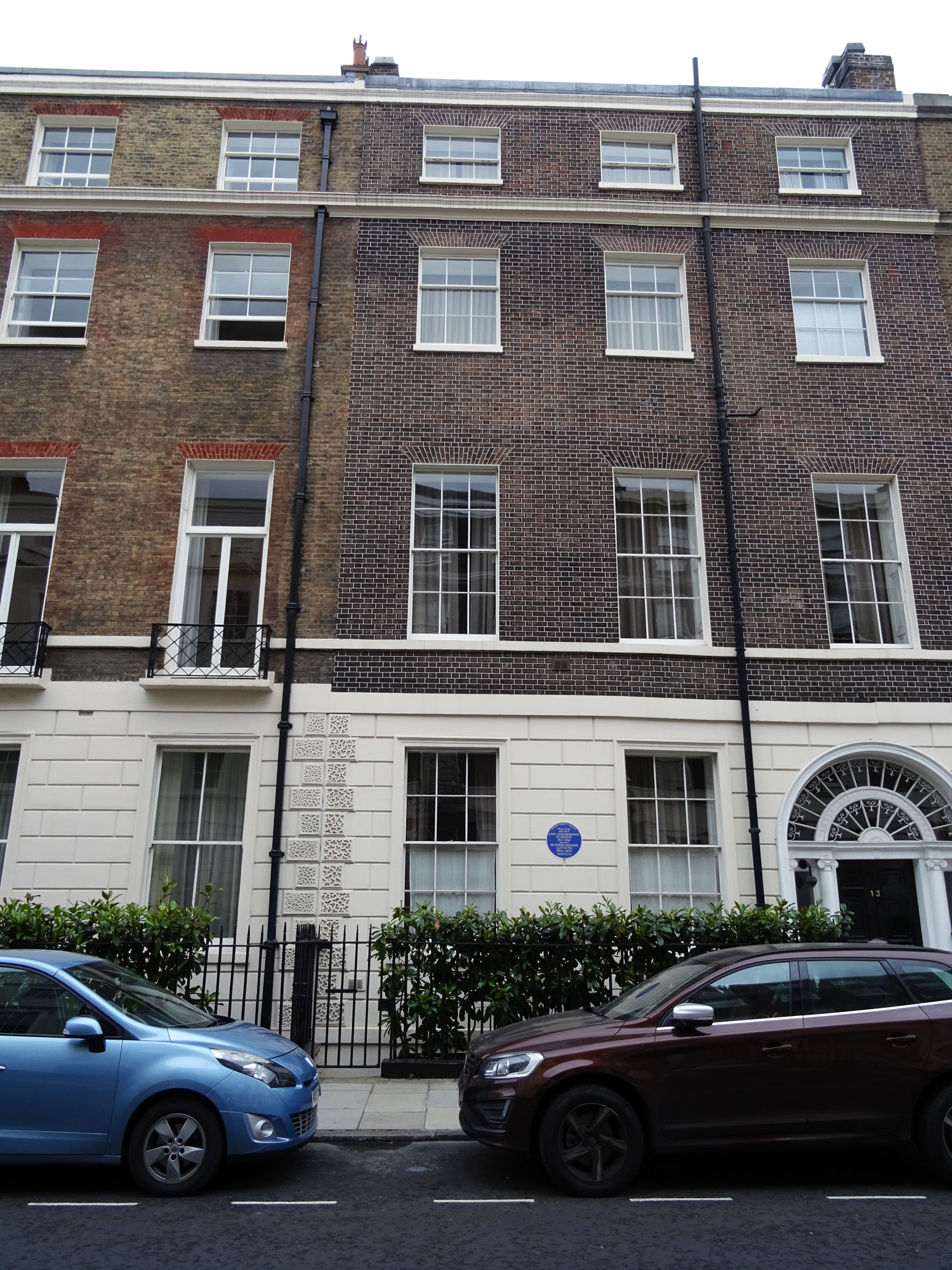 Here lived and died JOHN LOUGHBOROUGH PEARSON 1817–1897 and later SIR EDWIN LANDSEER LUTYENS 1869–1944 Architects